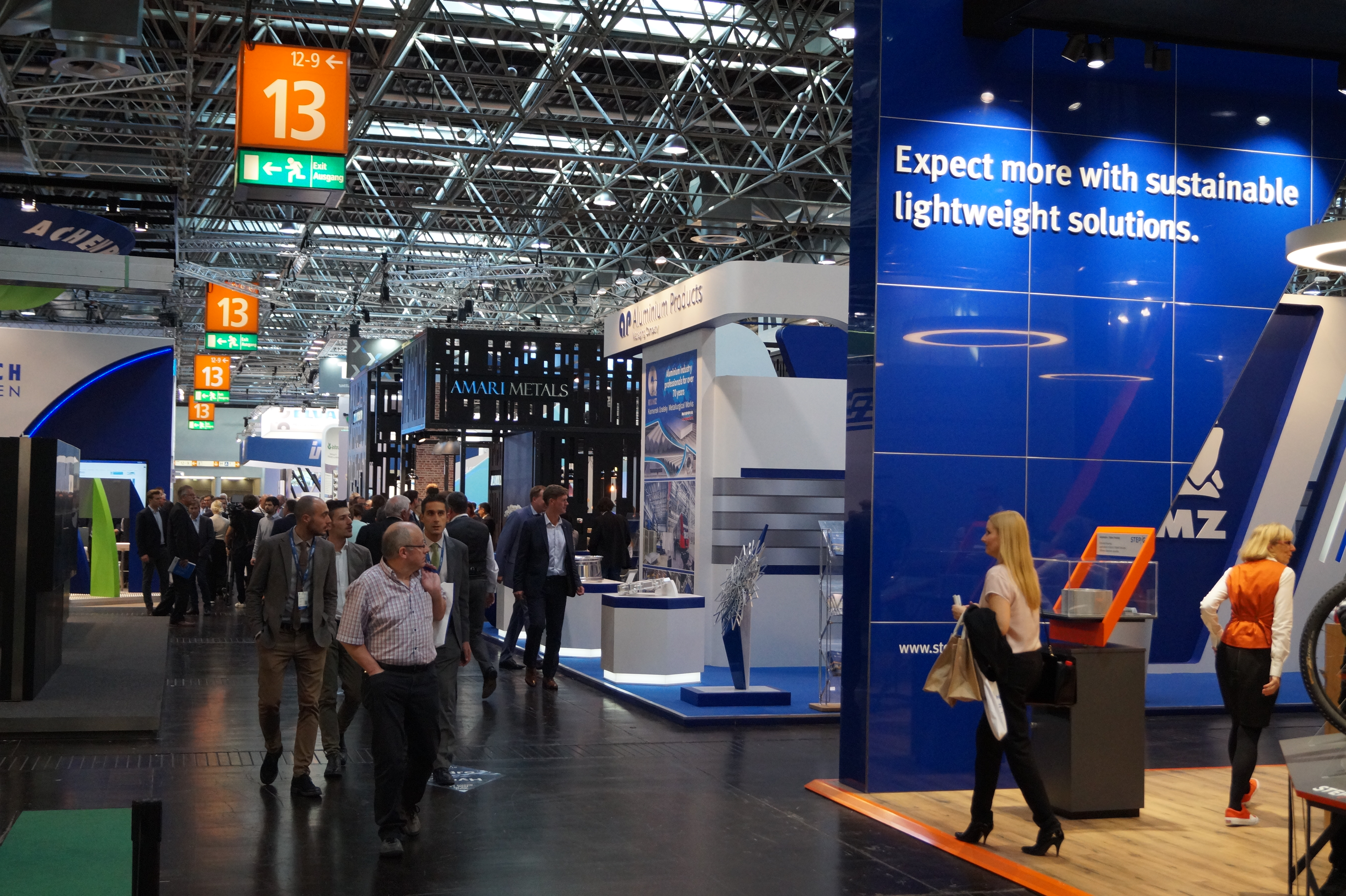 Aluminium 2018 World Trade Fair and Conference